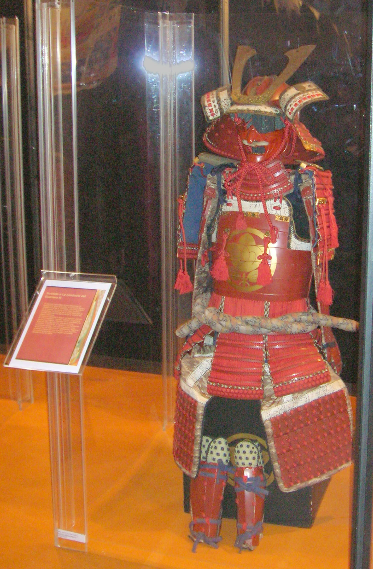 Red and golden armour in the "Samuráis, otros tiempos, otras culturas" ("Samurais: Other times, other cultures") exhibition in the marquee of IV Getxo Comic Con.